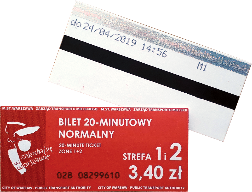 Warsaw Metro ticket front and back sides